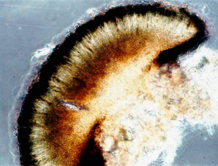 Amandinea punctata (Hoffm.) Coppins & Scheid., 1993 Photograph of a cross section of an apothecium from Amandinea punctata taken through a compound microscope, x400. (The exciple is uniformly pigmented dark brown; the epihymenium is brown; the hypothecium is brown black.) This specimen of Amandinea punctata was growing on old decorticated wood along the Parkman Trail at Acadia National Park, in Maine, USA. Collected and identified by E.C. Uebel (No. U-75, 10 Jun 2001).